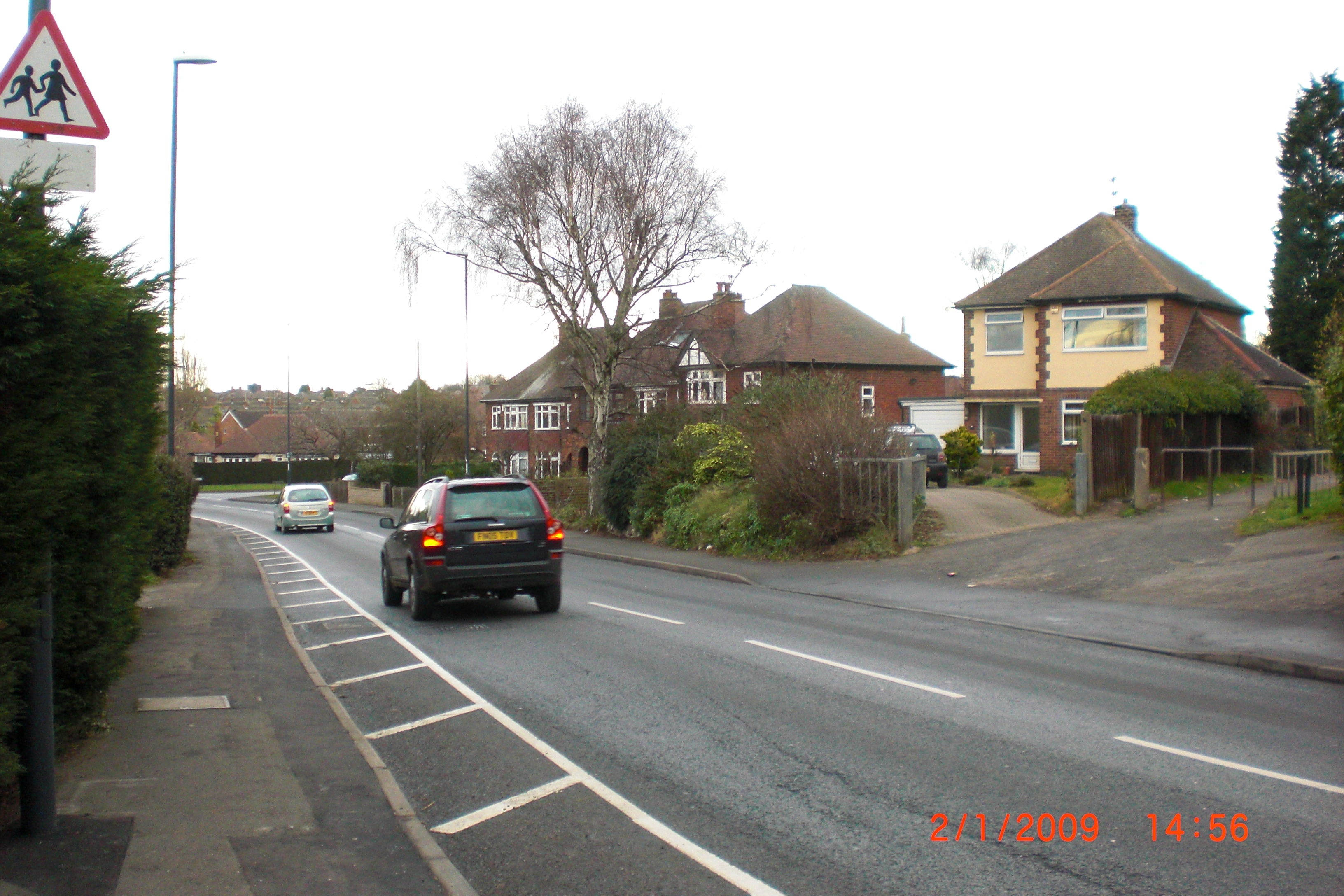 A514 in Chellaston, Derby